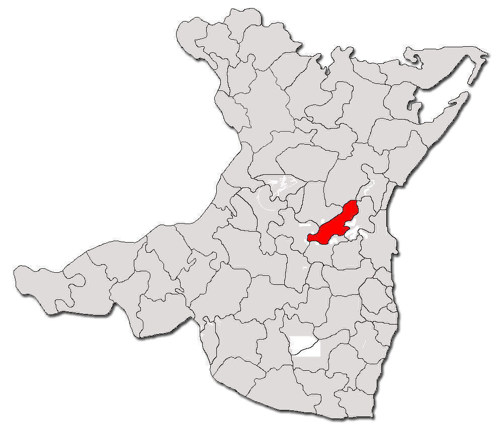 Countour map of Poarta Alba commune